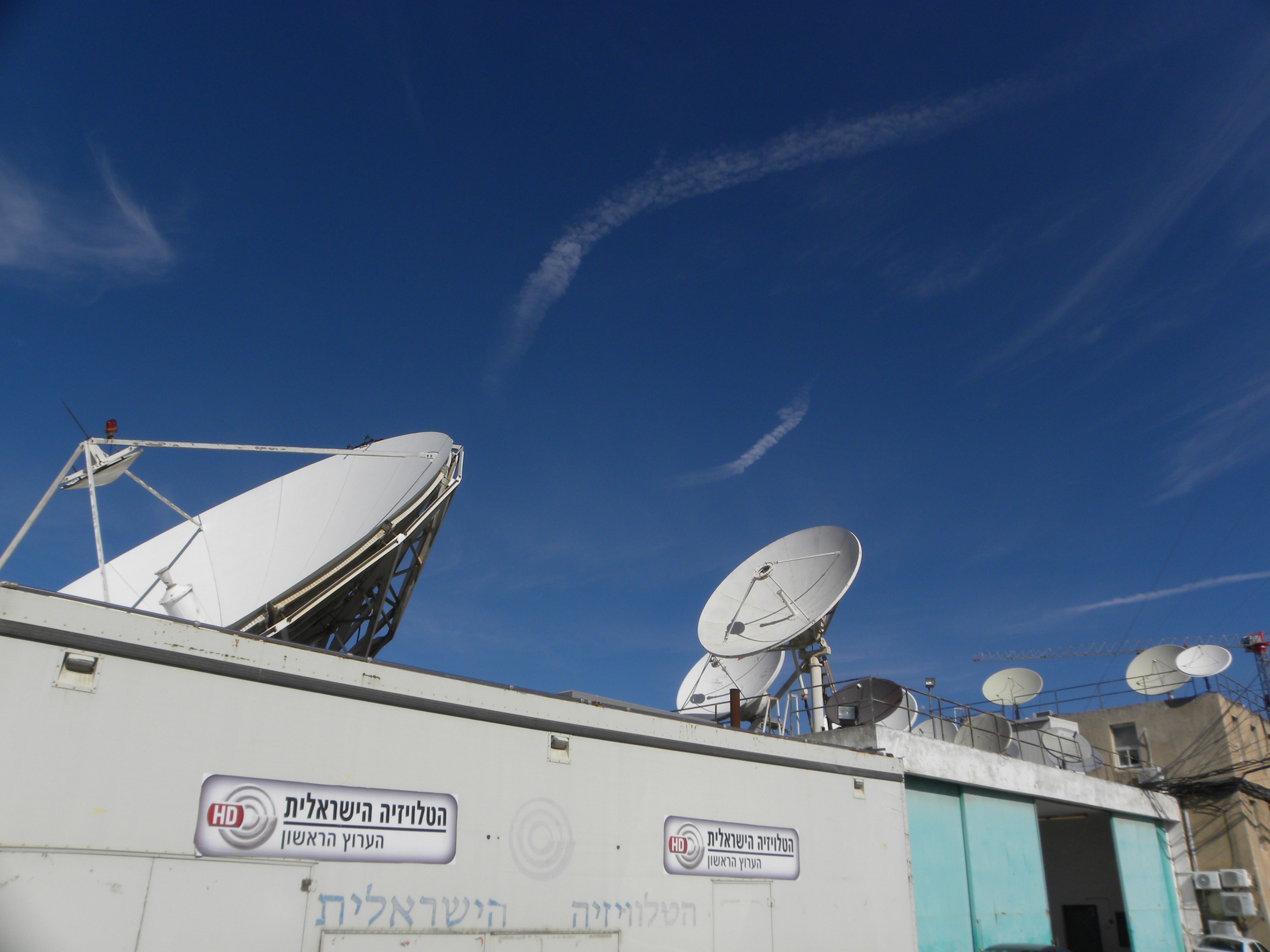 Israel Broadcating Authority Channel 1, in Romena, Jerusalem